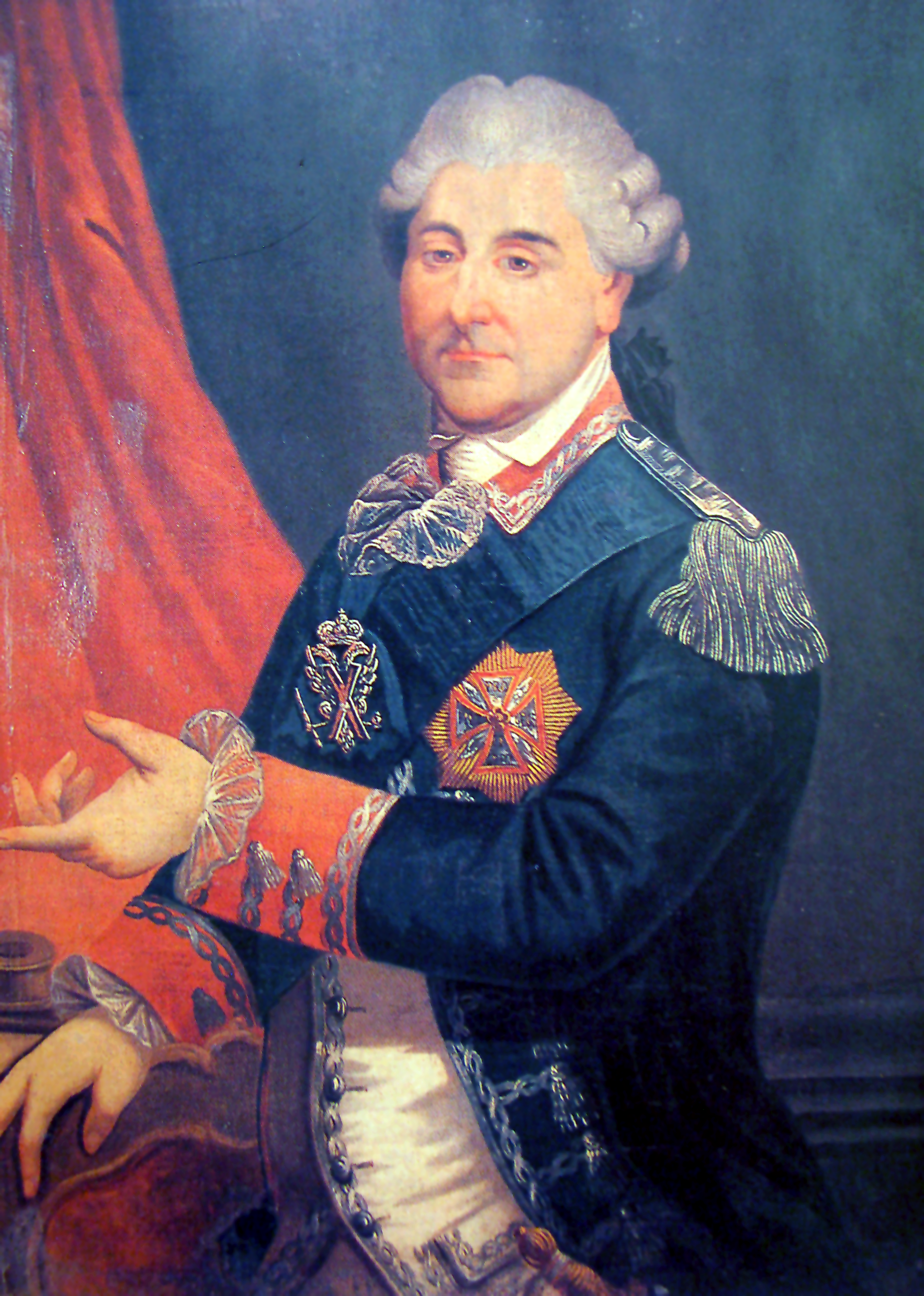 Stanisław August Poniatowski